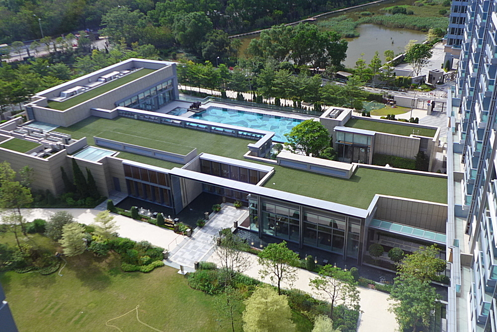 Park YOHO Club COMO Overview